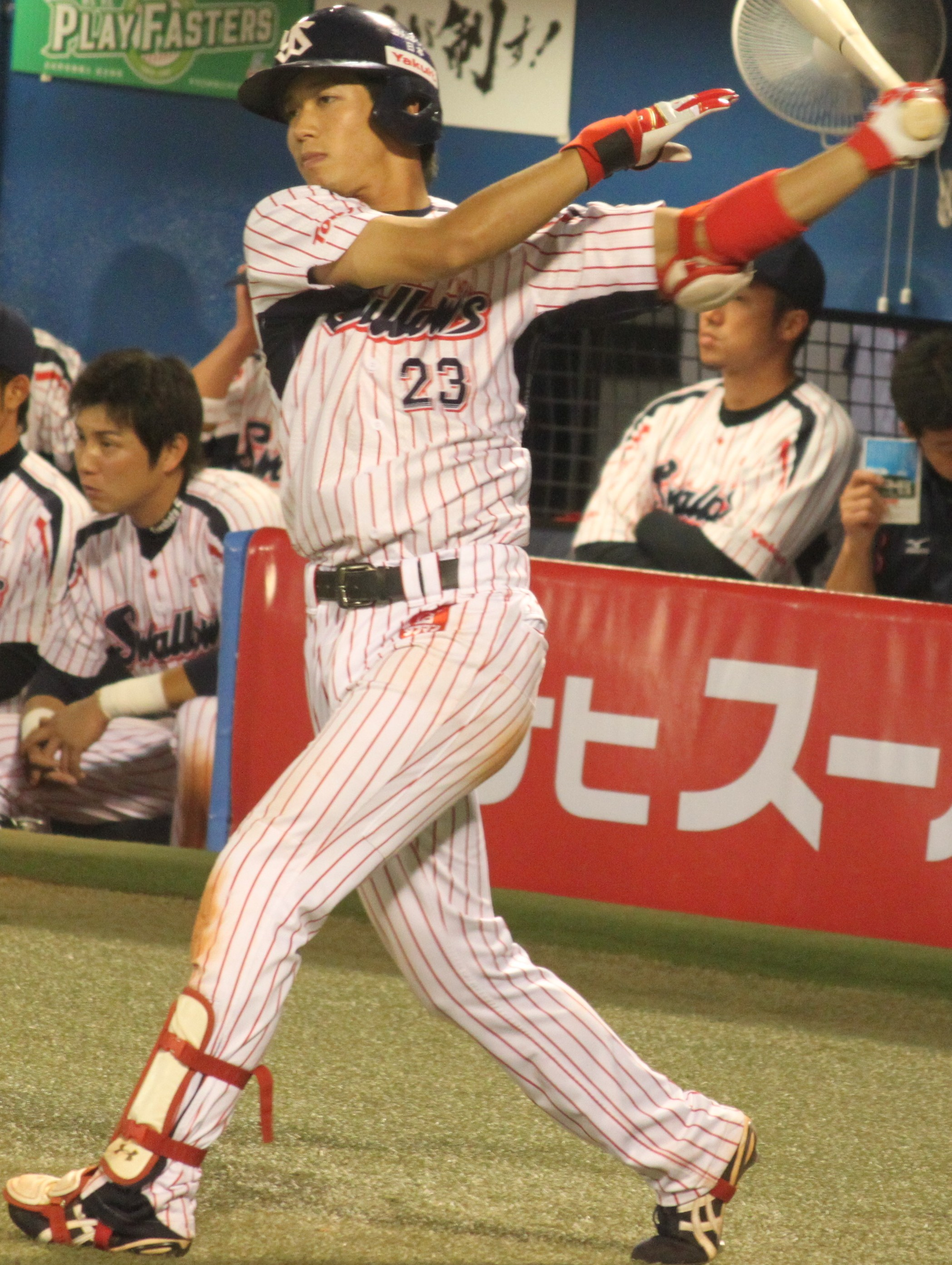 Tetsuto Yamada, infielder of the Tokyo Yakult Swallows, at Meiji Jingu Stadium.